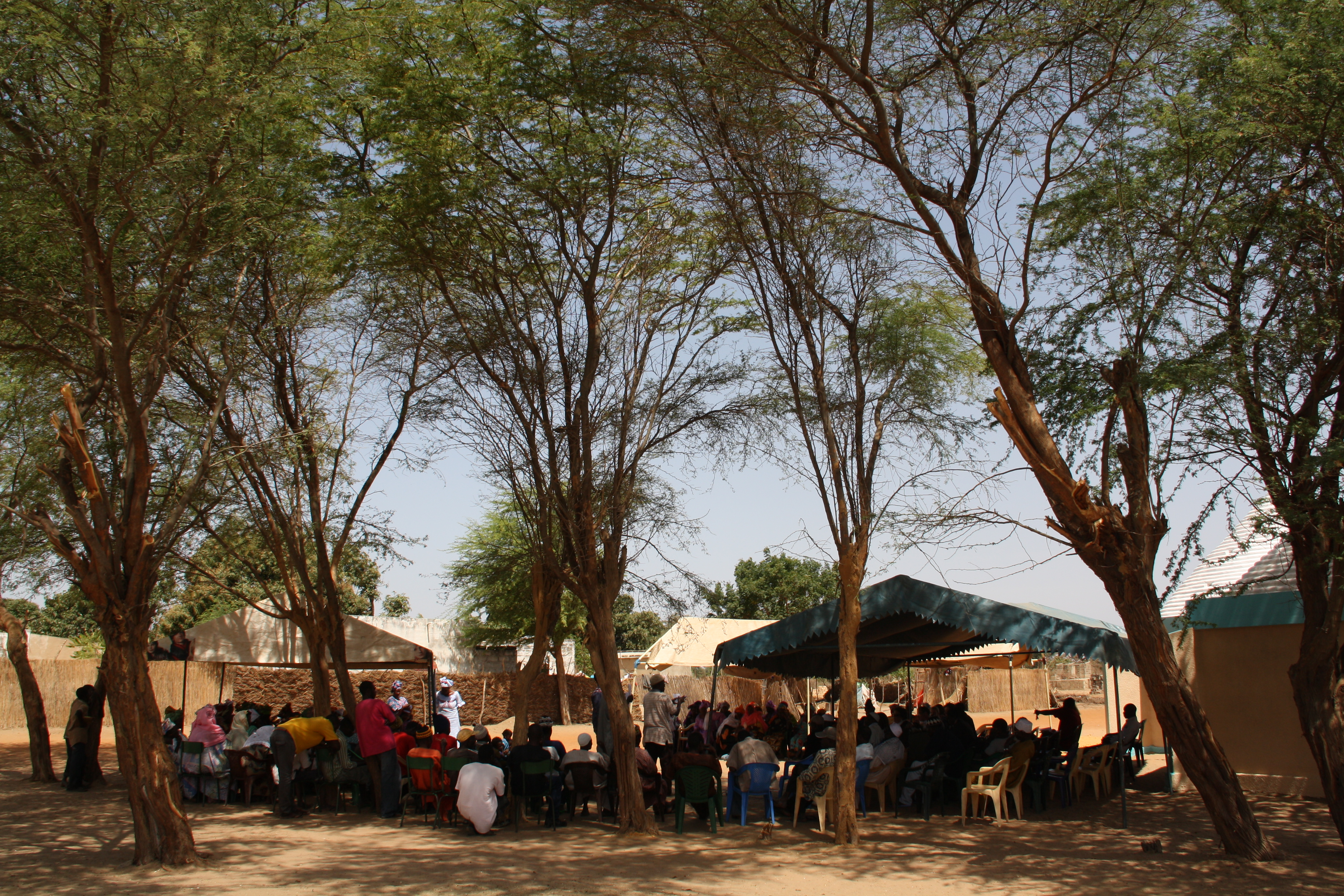 In March 2013, Lynne Featherstone, International Development Minister, visited Keur Simbara, Senegal, to see how Tostan, an NGO empowering communities throughout Africa, had helped the village reach the momentous decision to abandon FGC. In March the UK committed to help end female genital cutting within a generation. Find out more: Picture: James Fulker/DFID